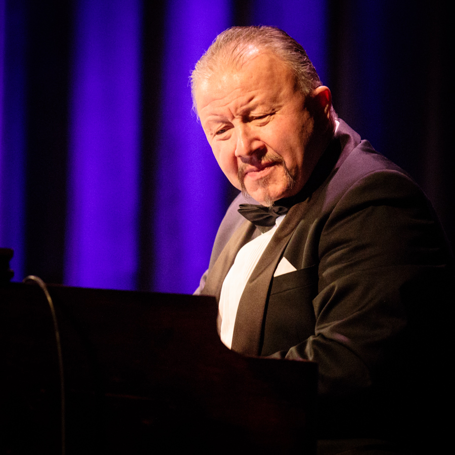 Paul Wagnberg in concert with Angelina Jordan and The Real Thing at Cosmopolite. The concert took place on 14. December 2017 in Oslo. Lineup: Angelina Jordan (vocal), Sigrid Brennhaug (vocal), Hermund Nygård (drums), Dave Edge (saxophone), Paul Wagnberg (organ) and Staffan William-Olsson (guitar).